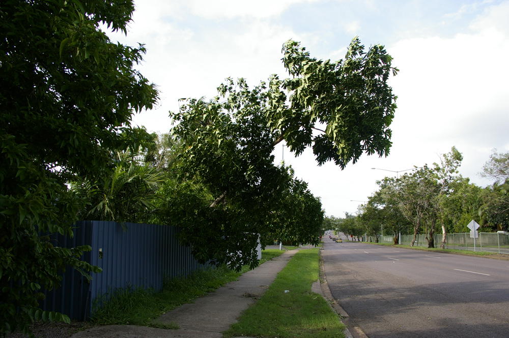 Looking up Bagot Road after Tropical Cyclone Helen. Ludmilla, Northern Territory